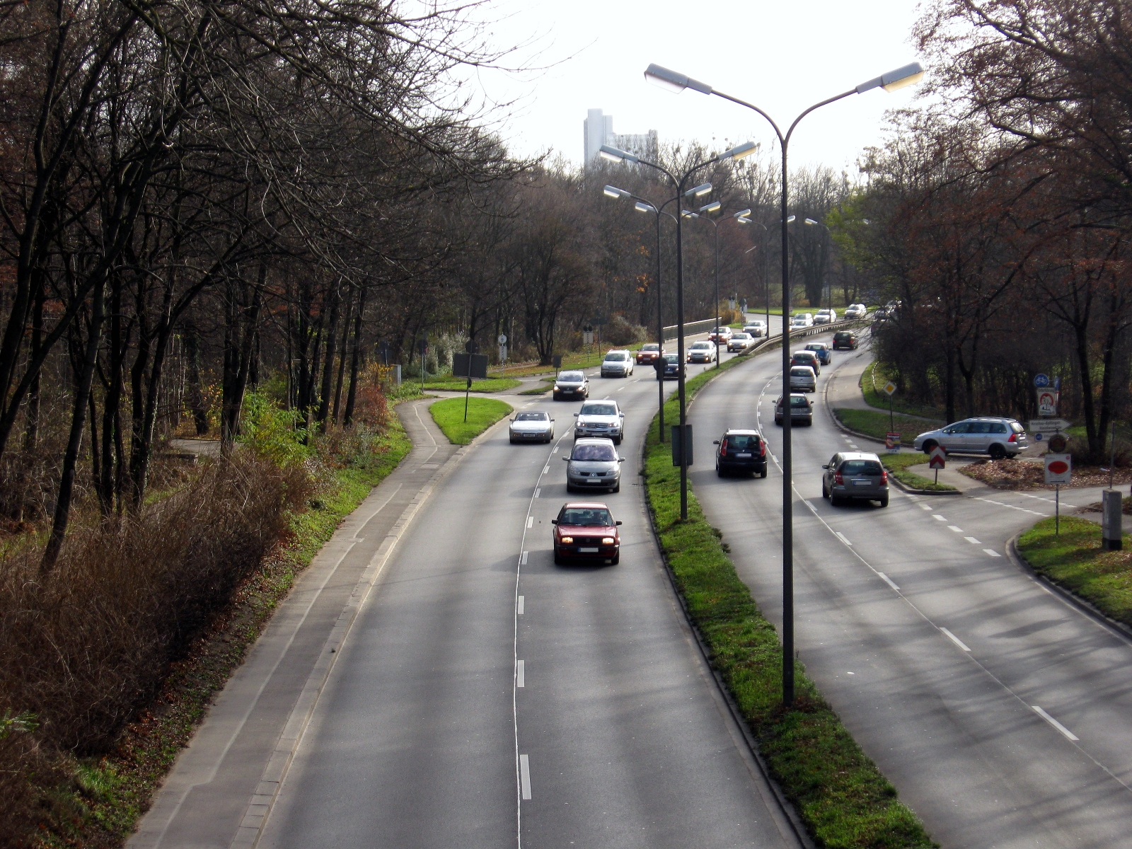 Isarring in the English Garden in Munich (Bavarian, Germany) view eastwards